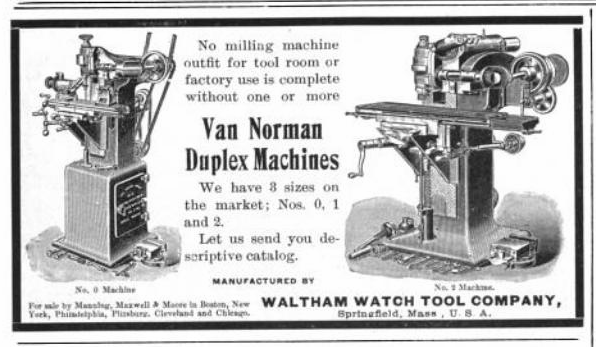 An advertisement for the Waltham Watch Tool Company's Van Norman milling machines, appearing in the journal _Machinery_, 1902.